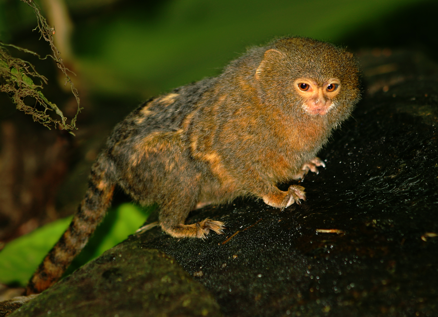 Pygmy marmoset (Callithrix pygmaea)